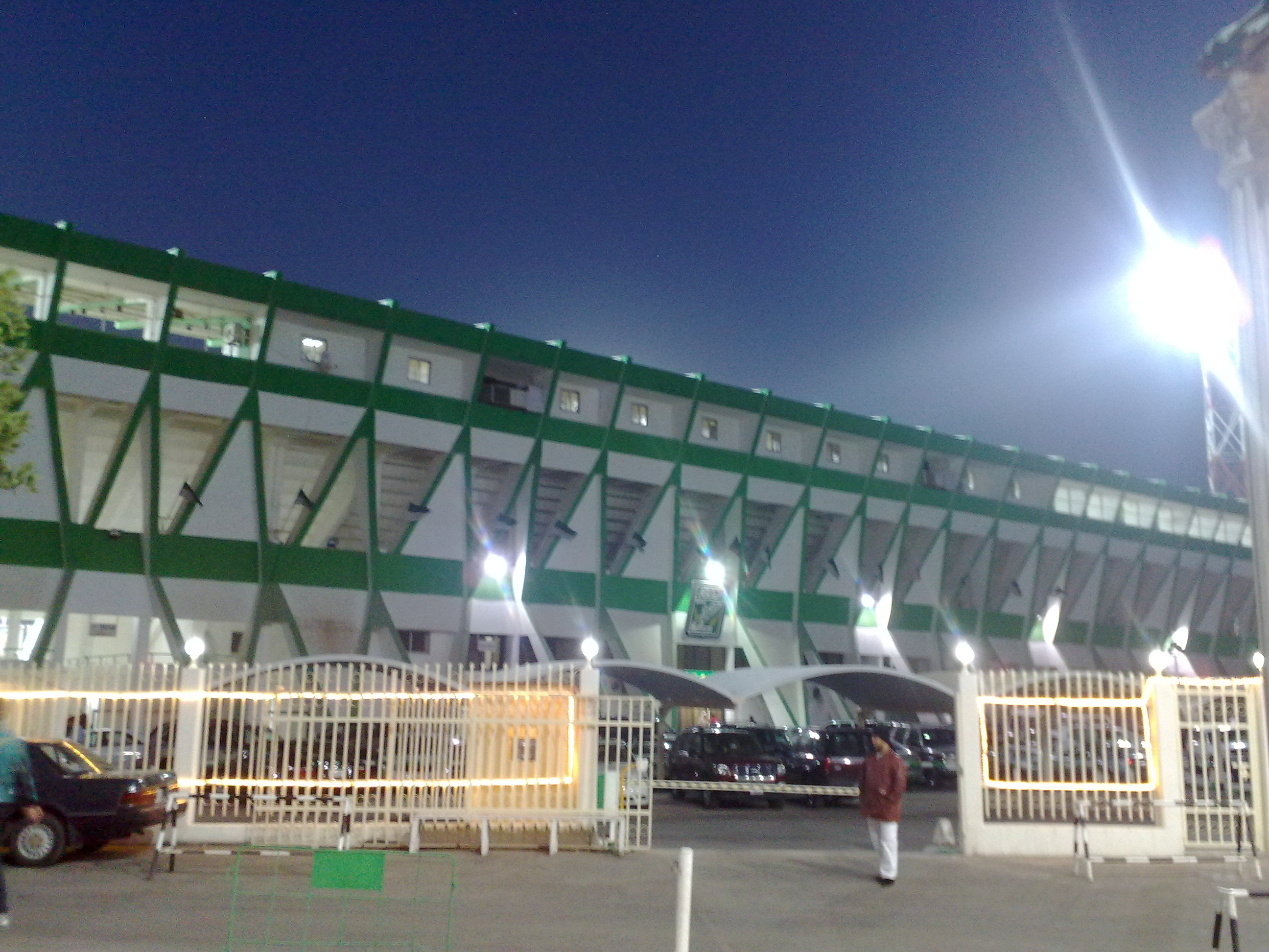 This is an image of al arabi stadium